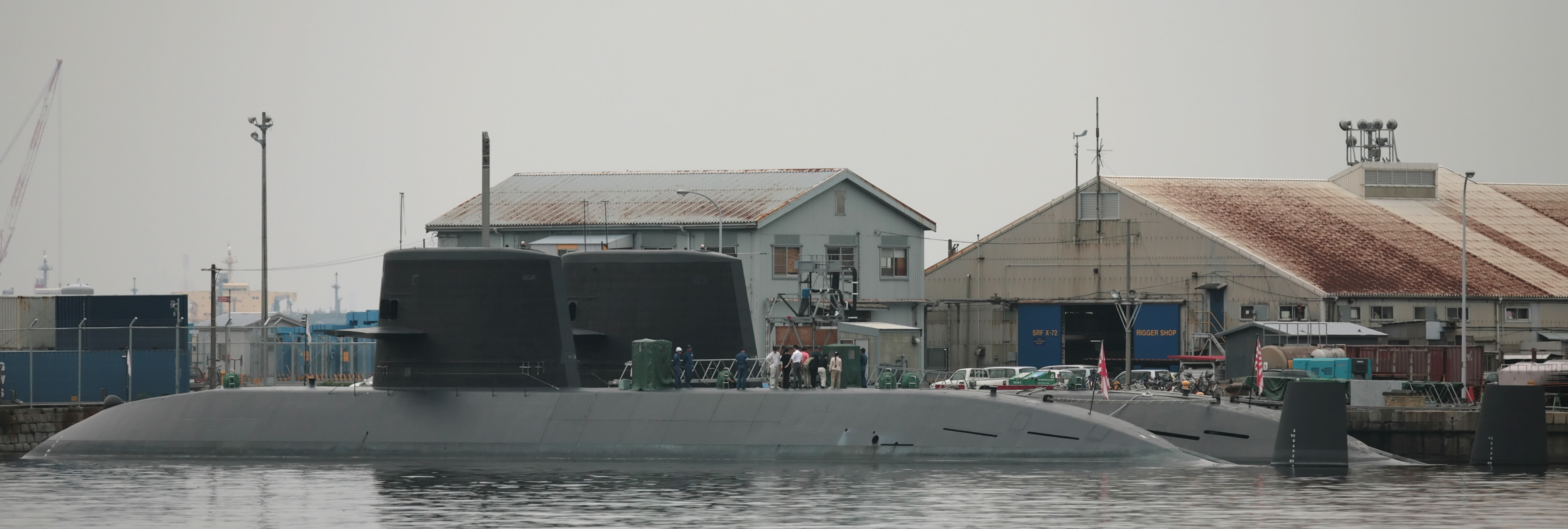 Two Japanese Oyashio submarines docked at Yokosuka naval base